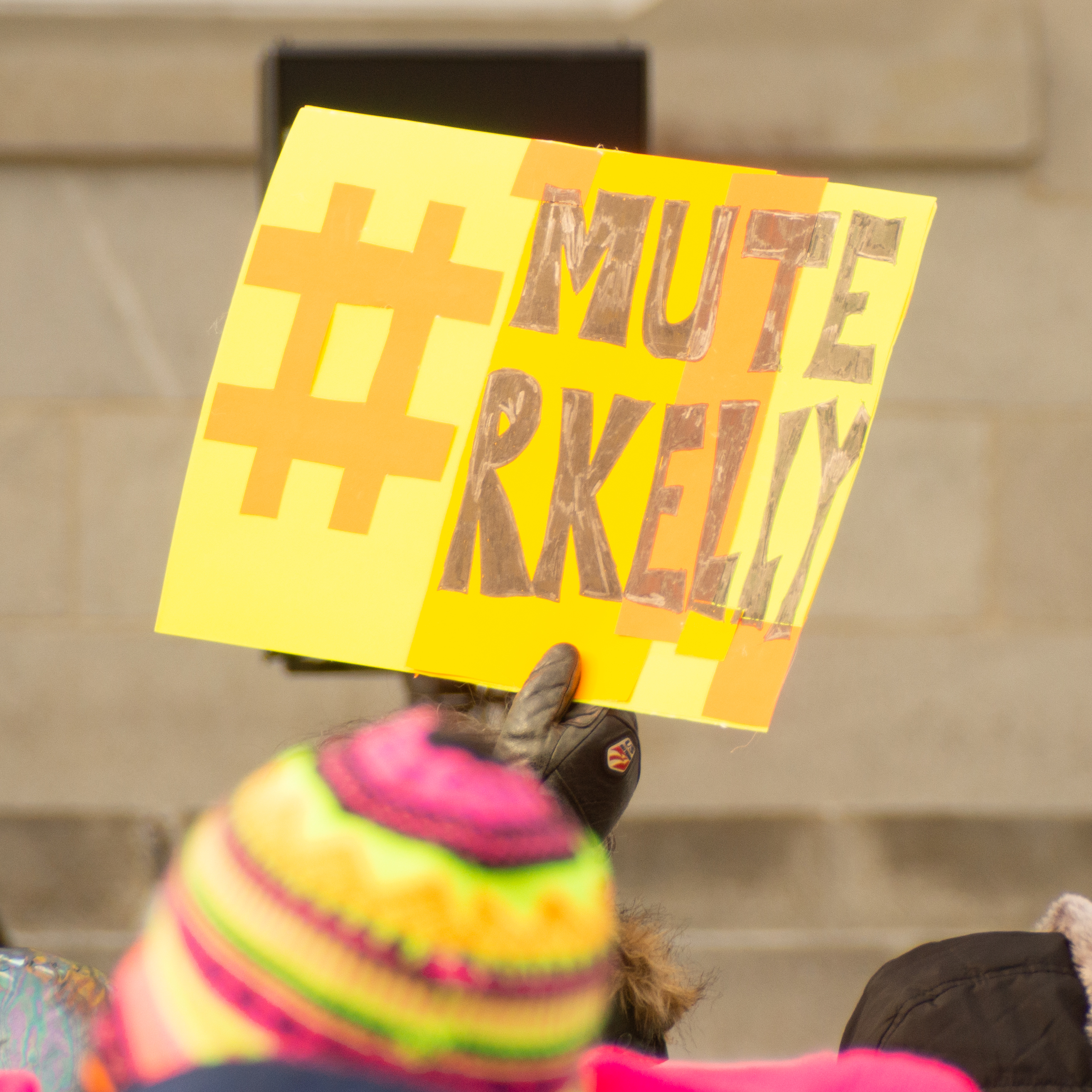 MuteRKelly